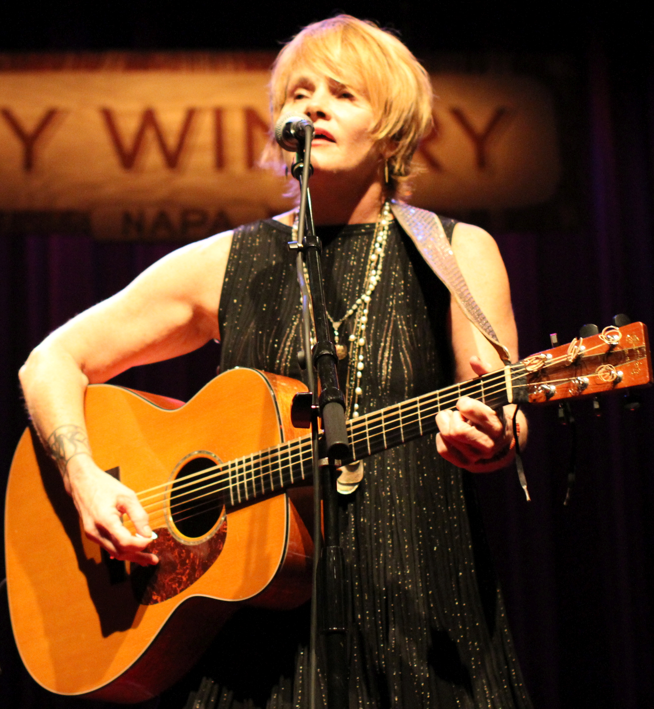 Shawn Colvin playing at City Winery in Napa, California.